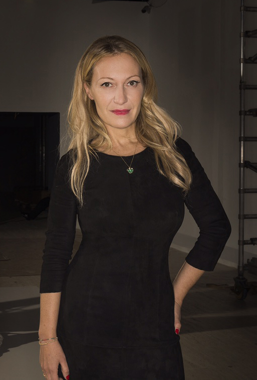 Diana Widmaier Picasso, granddaughter of famous sculptor Pablo Picasso, Grand Palais, Paris.